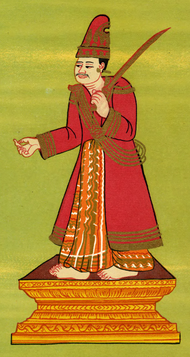 Mandalay Bodaw nat (spirit), th in the official pantheon of Burmese nats